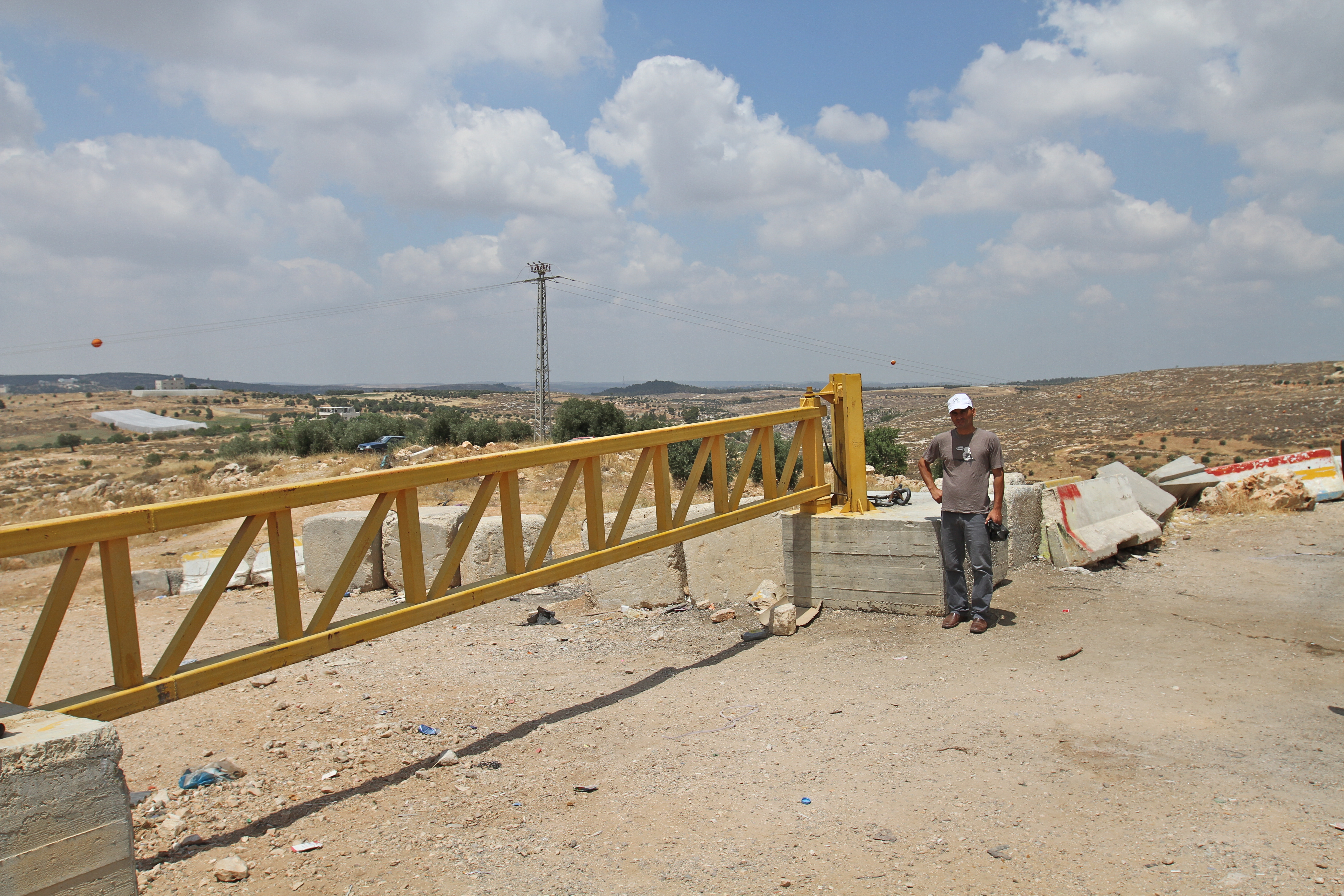 Roadblock between Sarif and Al'jab'a, West Bank. This gate had remained closed since construction except for briefly on one occasion for foreign dignitaries. It continues to restrict freedom of movement for Palestinians between the two communities.